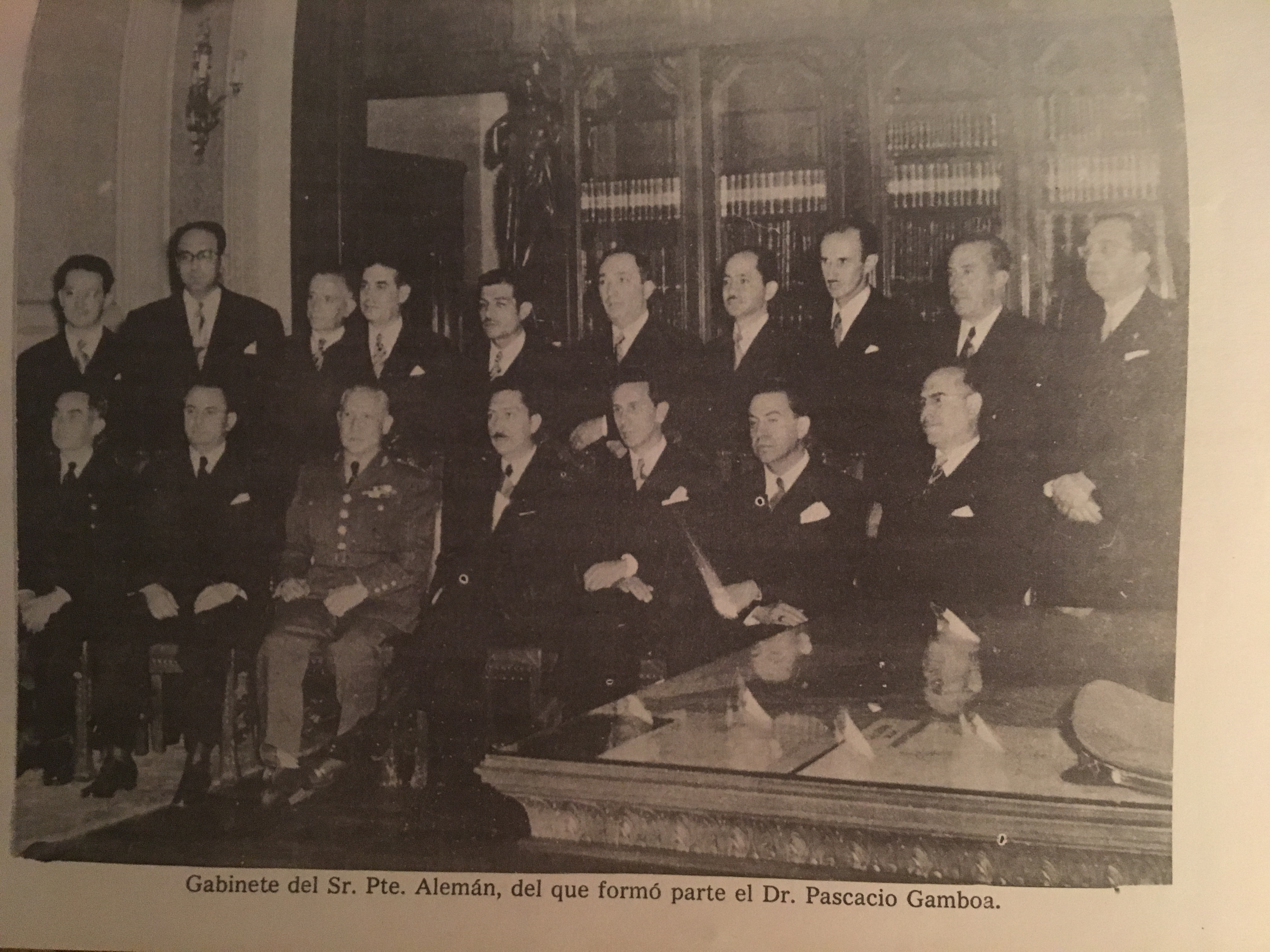 Gabinete del Presidente Miguel Alemán Valdés